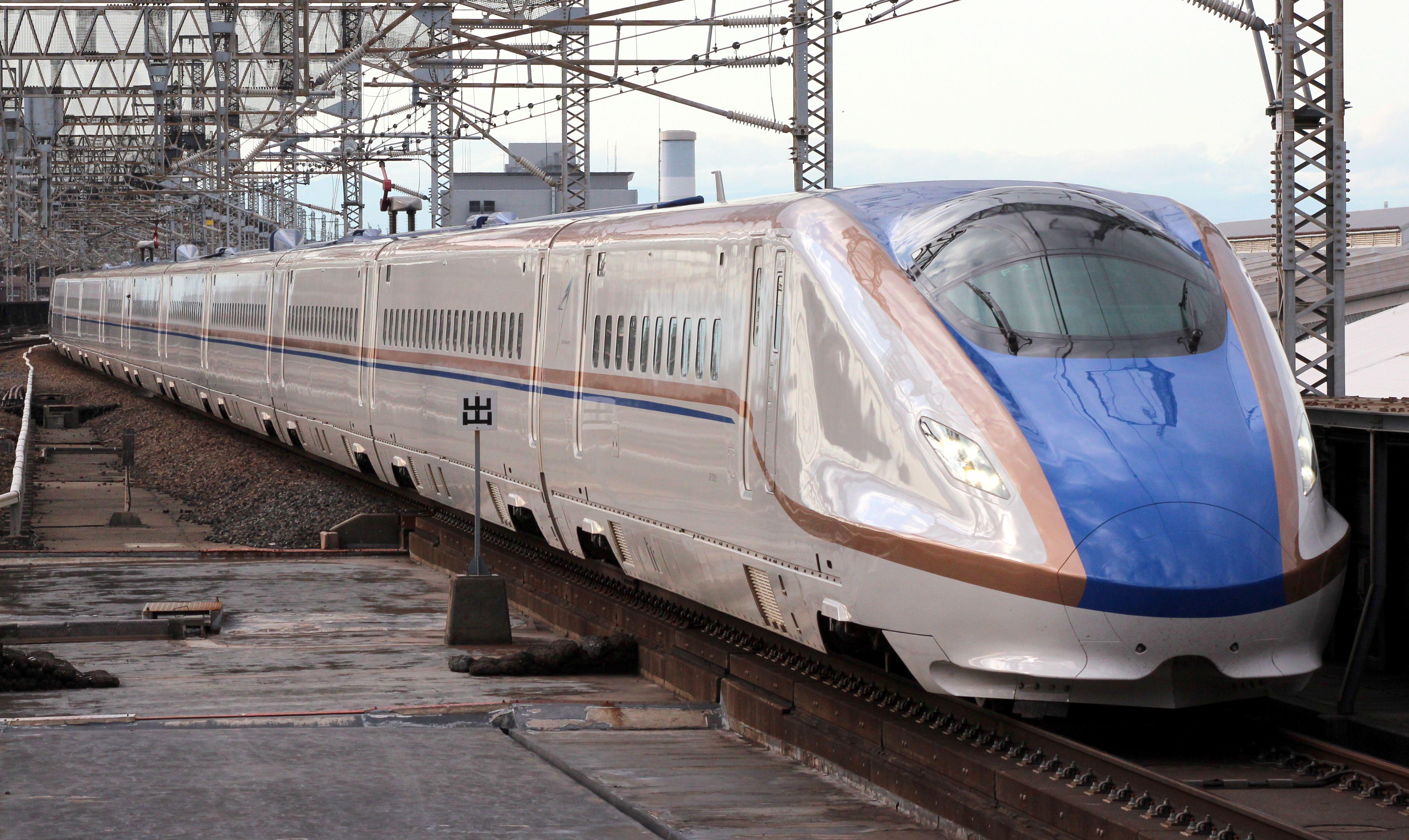 JR East E7 series shinkansen set F2 approaching Omiya Station on an up Asama service